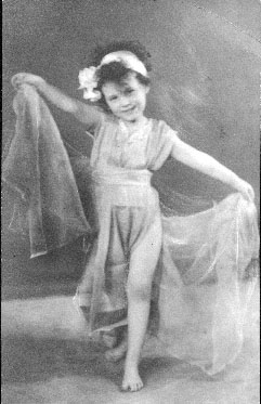 Virginia at four - jpeg